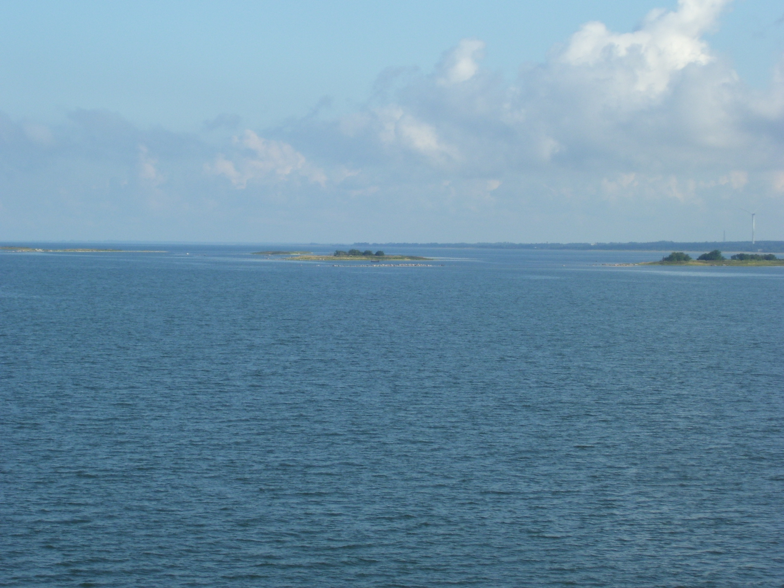 The islet group of Kõbajad, near Virtsu (Estonia)